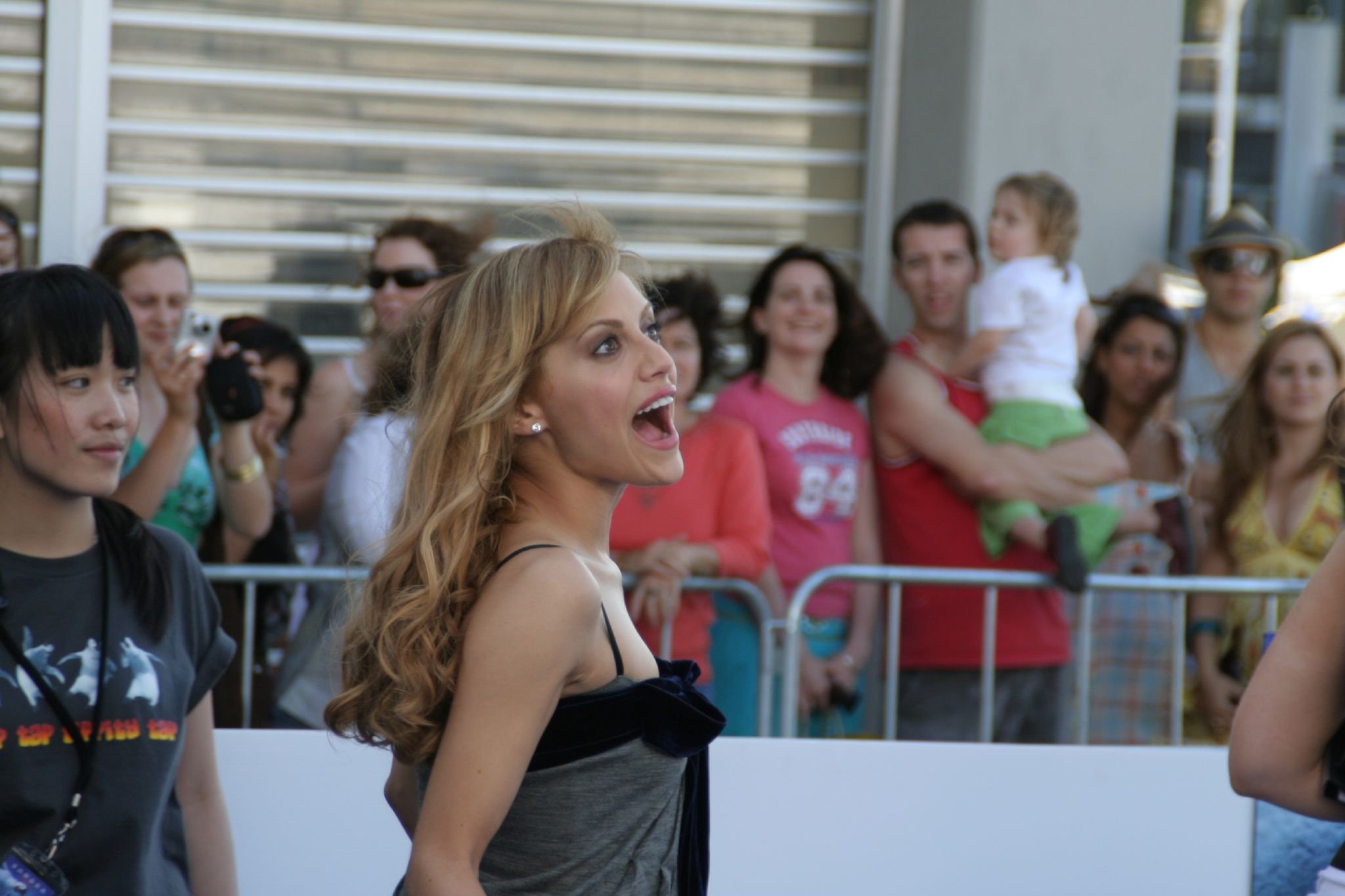 Australian Premier of Happy Feet, Fox Studio, Sydney